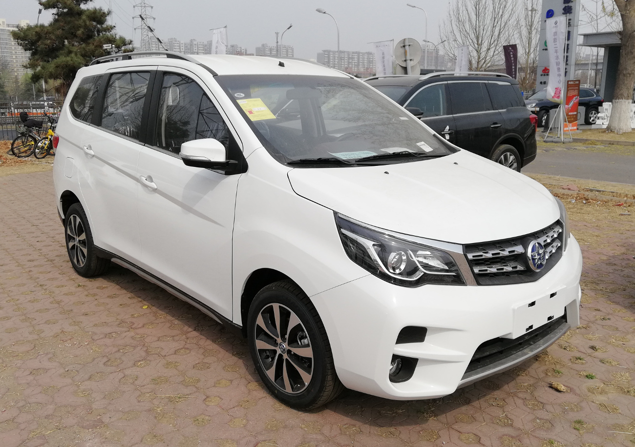 Venucia M50V photographed in Beijing, China.